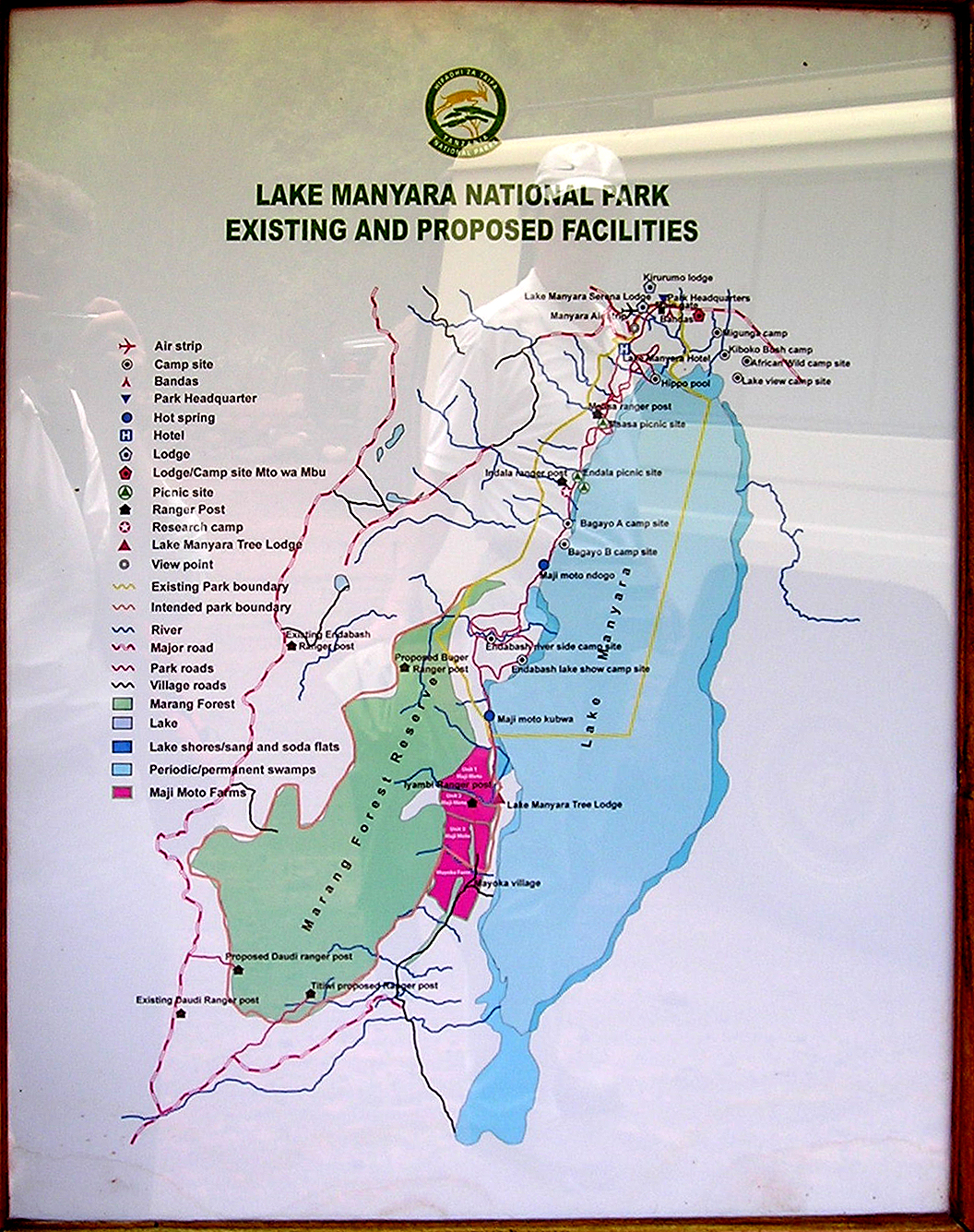 Sign at the entrance to Lake Manyara National Park